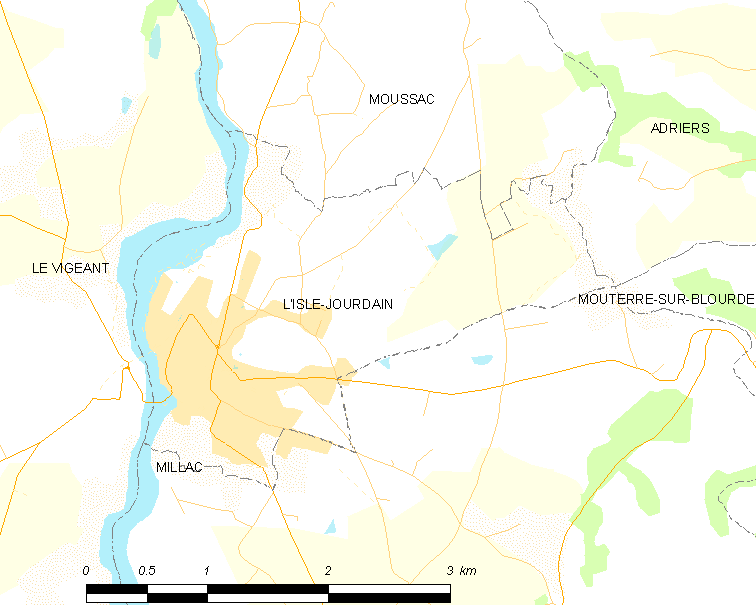 Map of French municipality L'Isle-Jourdain